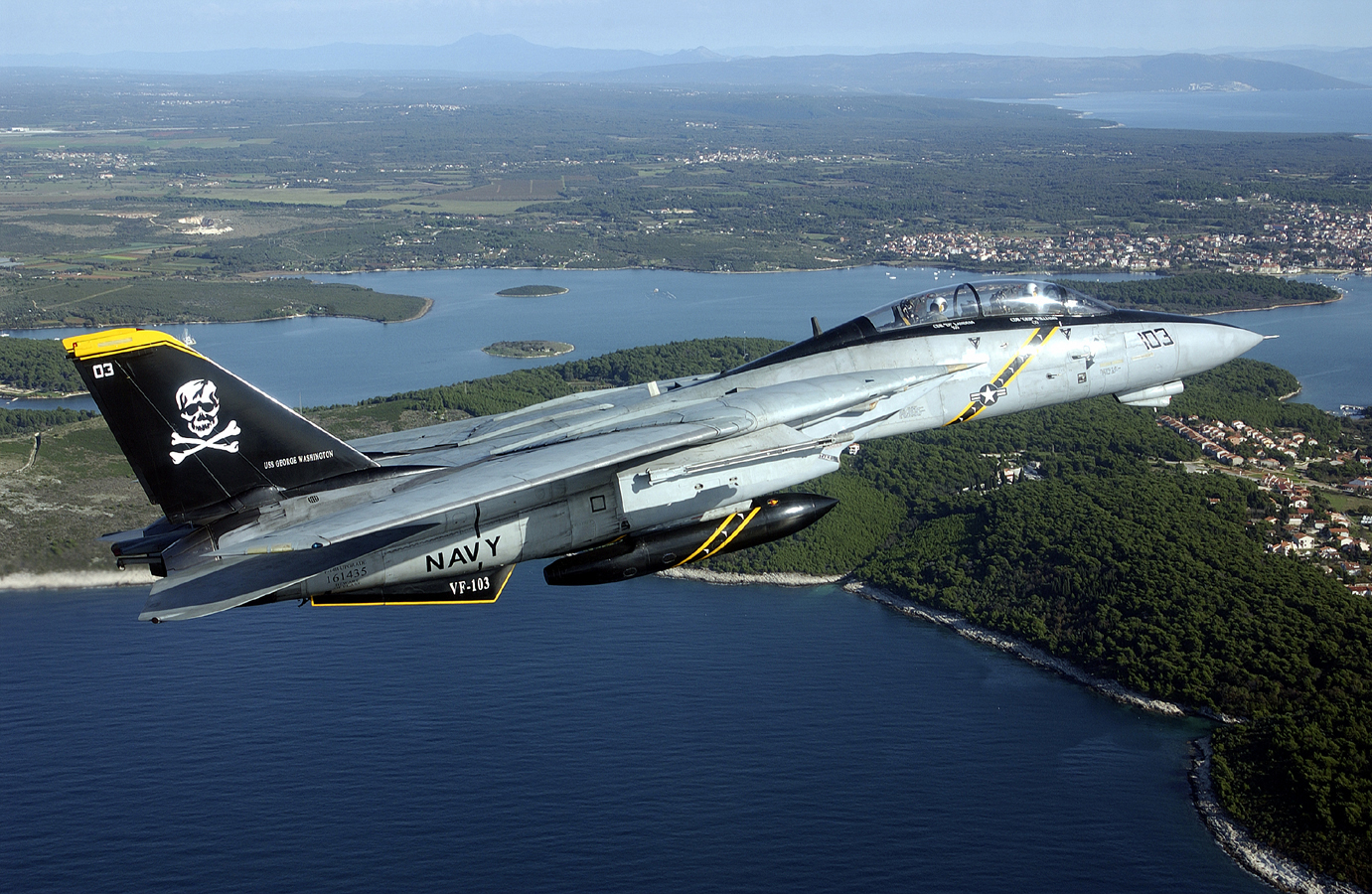 Pula, Croatia (Oct. 29, 2002) – A U.S. Navy F-14B Tomcat assigned to the “Jolly Rogers” of Fighter Squadron One Zero Three (VF-103) flies over the Croat coastline near Pula. Aircraft from VF –103 assigned to Carrier Air Wing Seventeen (CVW-17) were part of a detachment to Croatia participating in the exercise Joint Wings 2002, a multinational exercise between the U.S. and the Croat Air Force designed to practice intelligence gathering. CVW-17 is currently aboard the nuclear powered aircraft carrier USS George Washington (CVN 73) for a scheduled deployment. U.S. Navy photo by Capt. Dana Potts. (RELEASED)